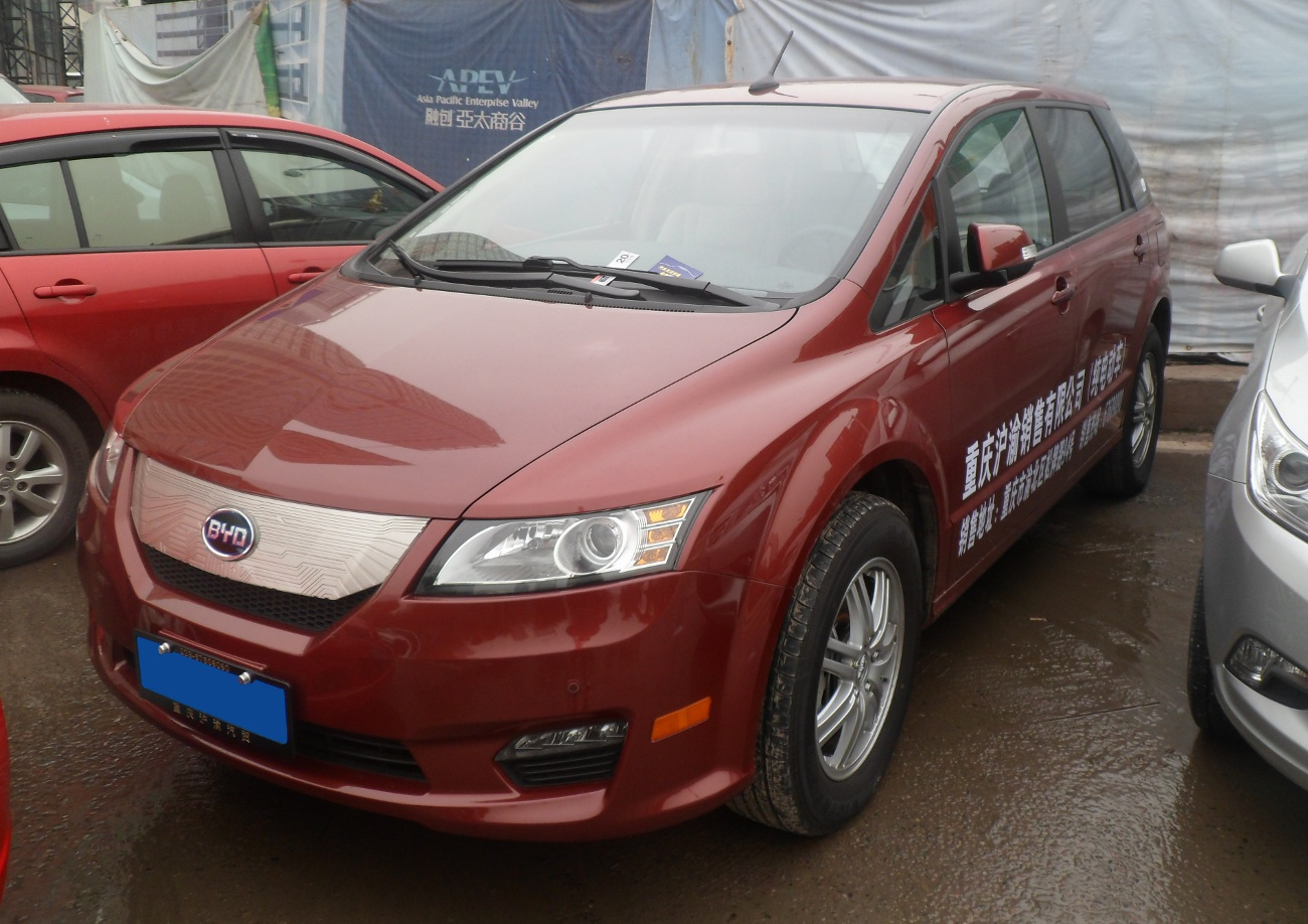 BYD e6 photographed in Chongqing, China.